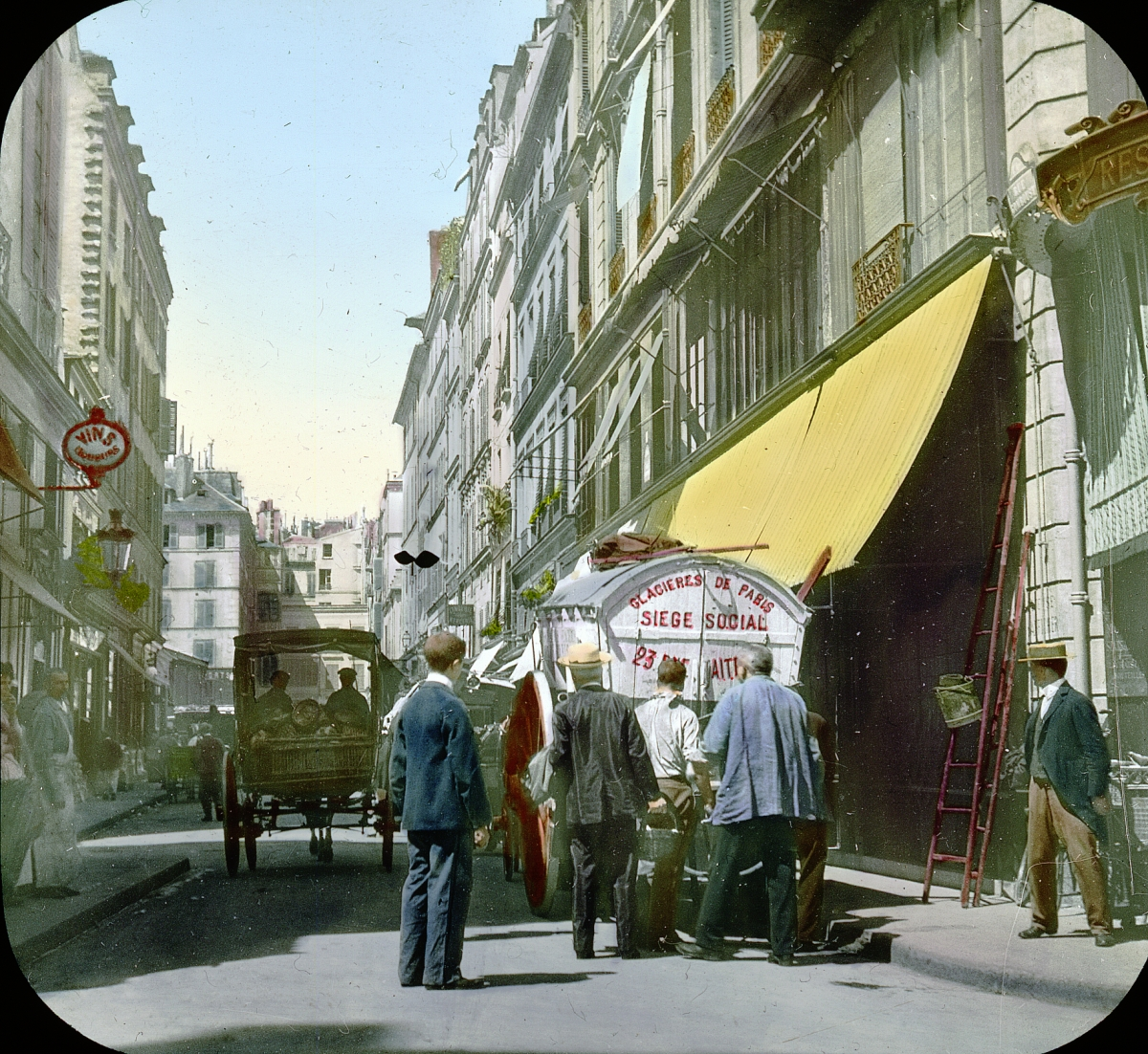 Paris Exposition: street scene, unidentified, Paris, France, 1900. View looking down a street with people. A carriage reads 'glacieres de paris siege social'. Brooklyn Museum Archives, Goodyear Archival Collection (S03_06_01_015 image 2059). Update: Rue Gomboust near Saint Honoré Market